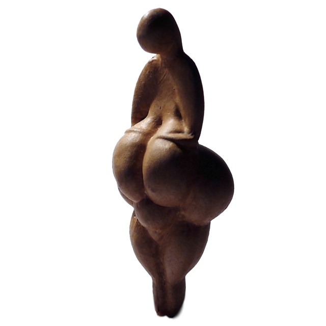 Replica of the Venus of Lespugue, carved from tusk ivory (Gravettian, Upper Paleolithic); France, Musée de L'Homme, Paris